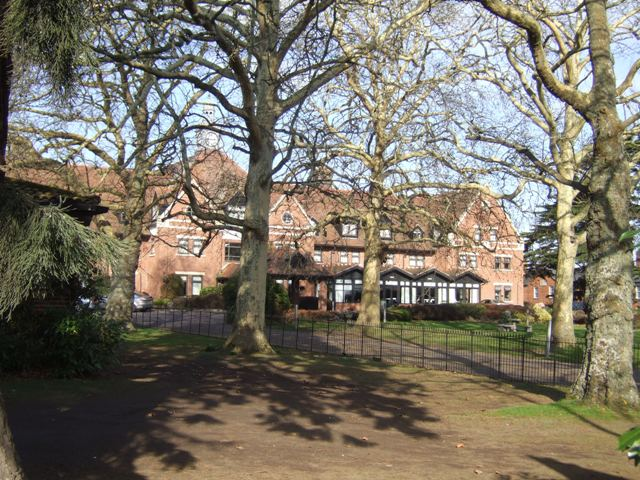 The Stratford Hotel